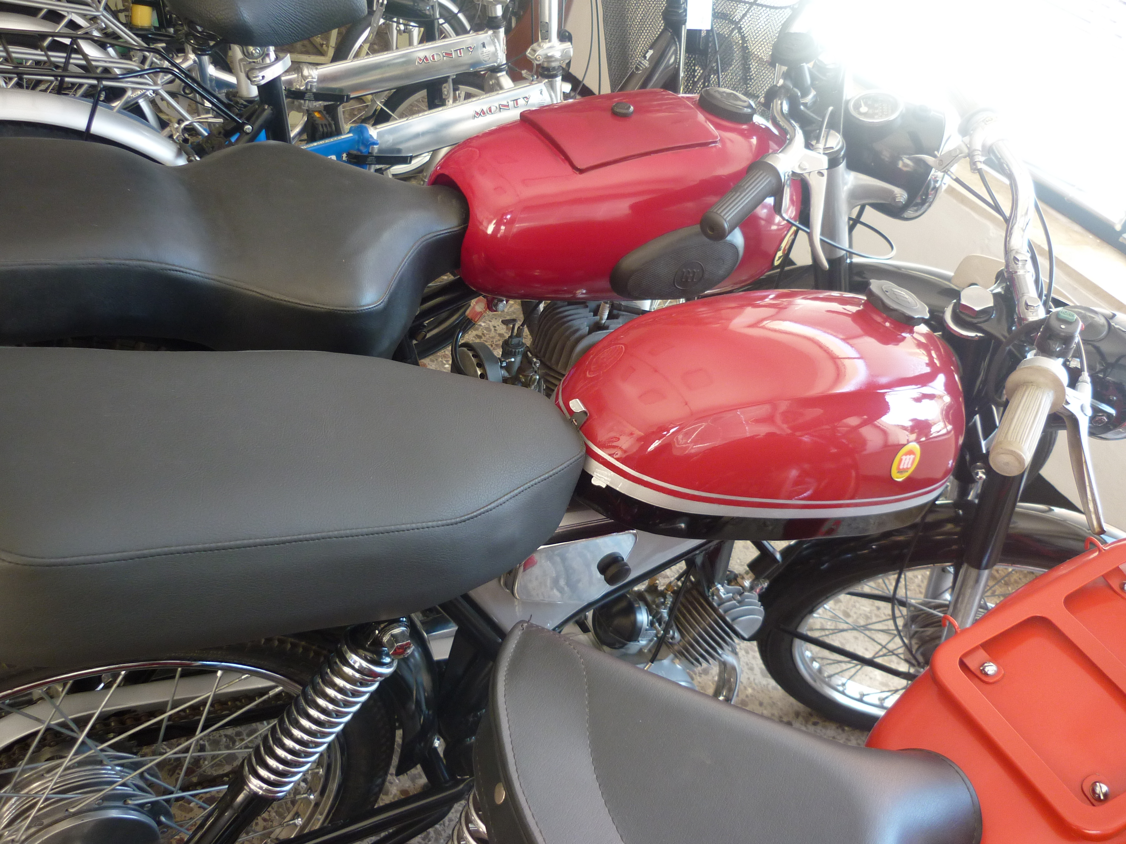 Mopped Montesa "Ciclo" 49cc, 1965 (middle), near a Montesa Brio 91 (left). Vilassar de Mar (Catalonia)